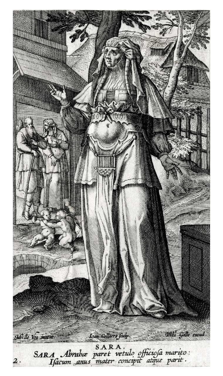 Engraving of Old Testament Bible character Sara